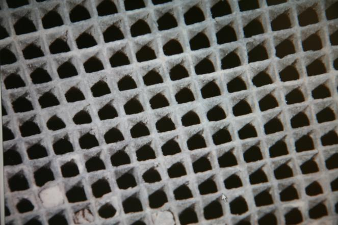 ceramic-core with washcoat, catalytic converter, catalyst